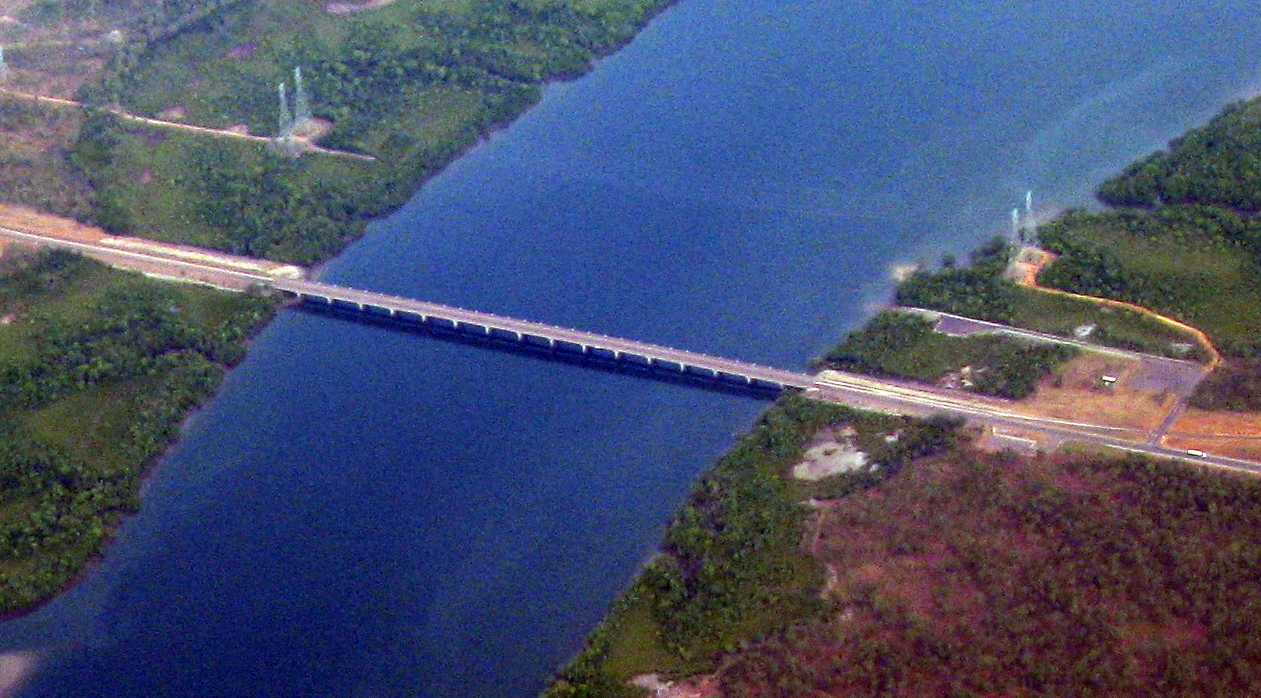 Bridge over the Elizabeth River, near Darwin